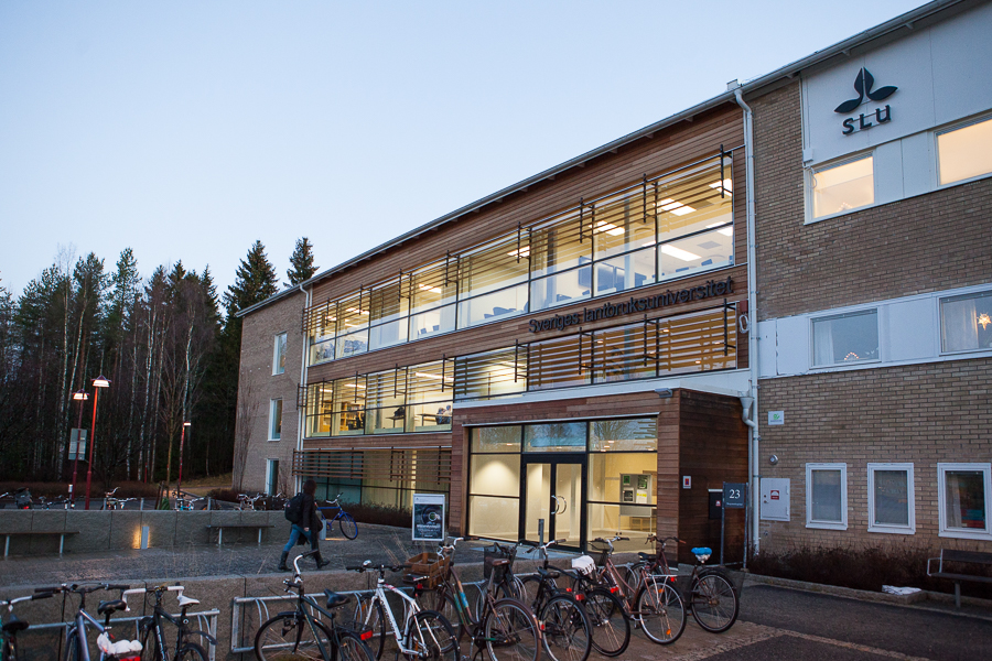 SLU in Umeå, the entrance towards the campus area.